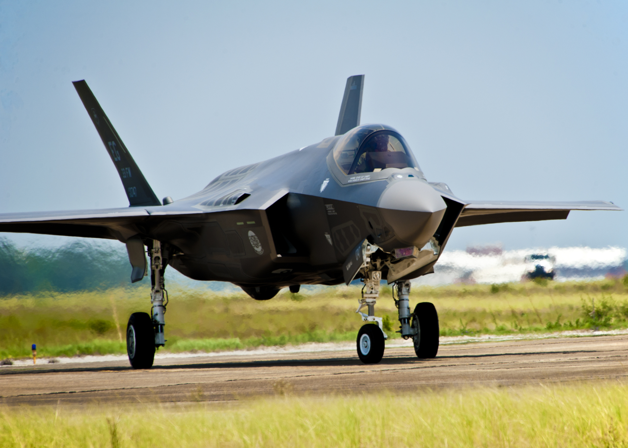 The Department of Defense's newest aircraft, the U.S. Air Force F-35 Lightning II joint strike fighter, taxis in to its new home with the 33rd Fighter Wing at Eglin Air Force Base, Fla., July 14, 2011.